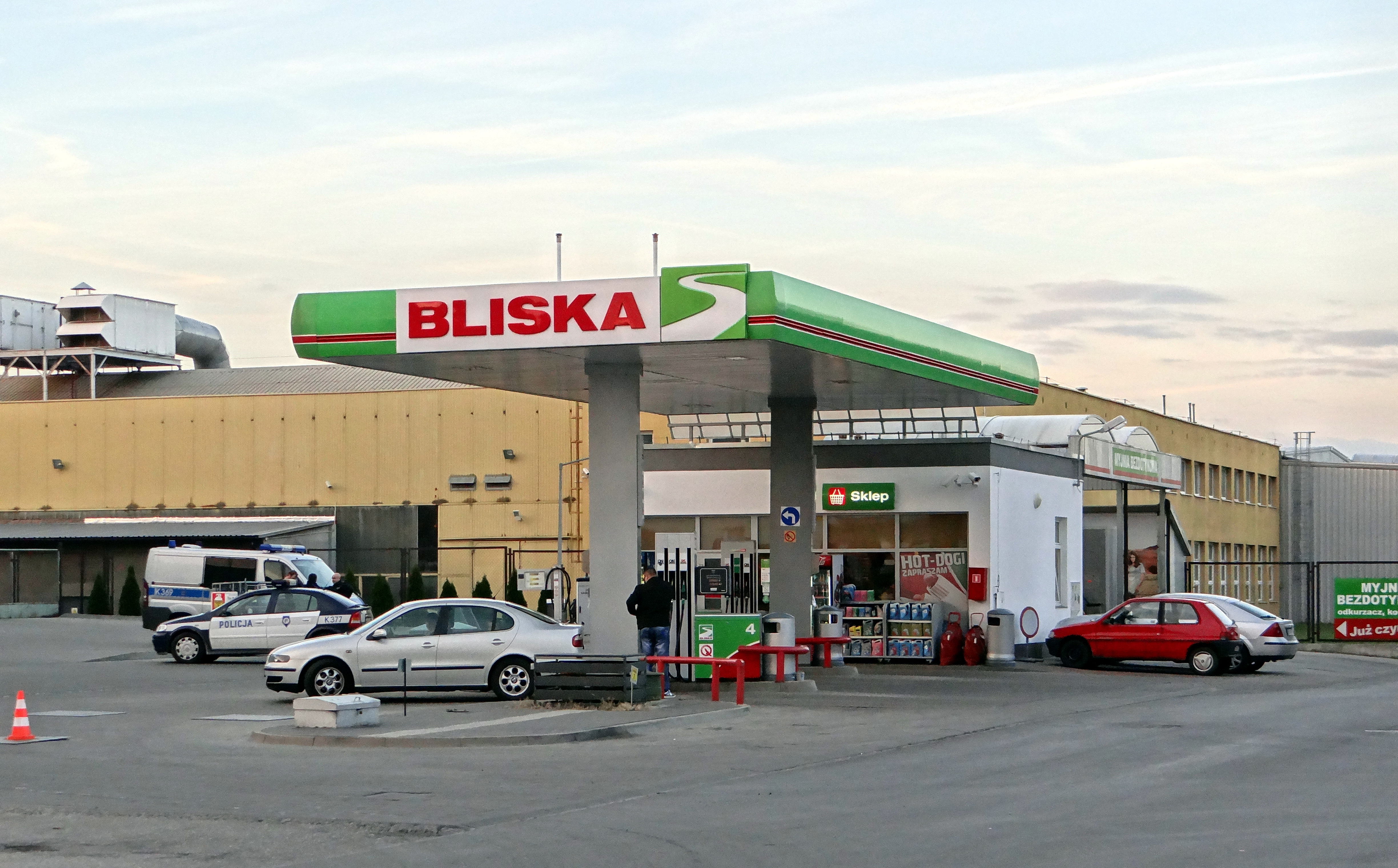 Nisko - Sandomierska street - Bliska petrol station